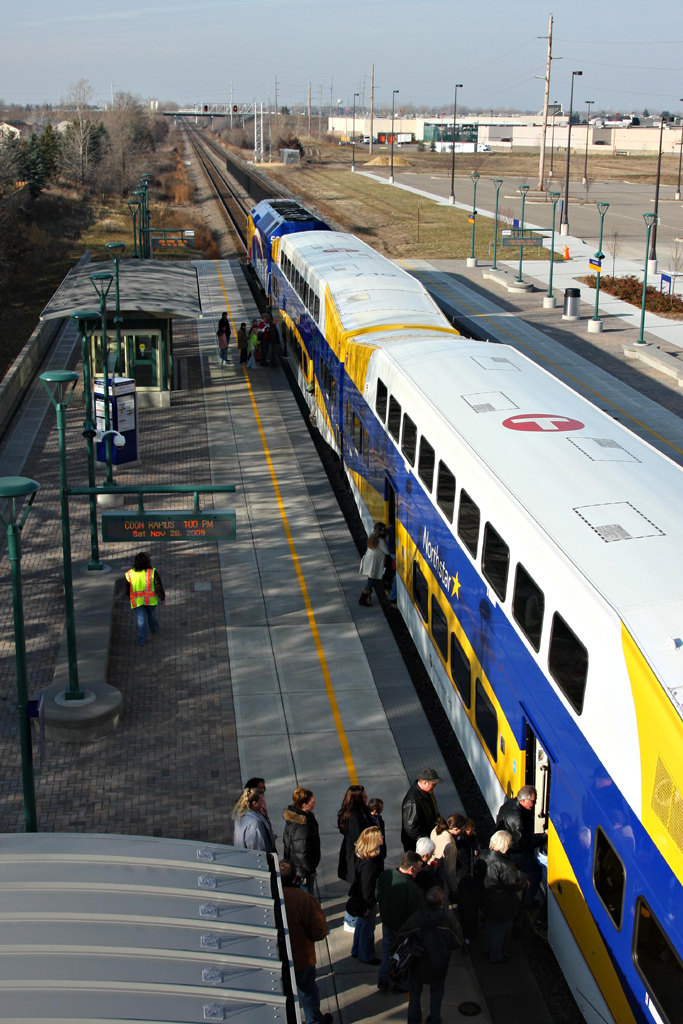 Northstar patrons have about a minute to board train 1930 at Coon Rapids station.